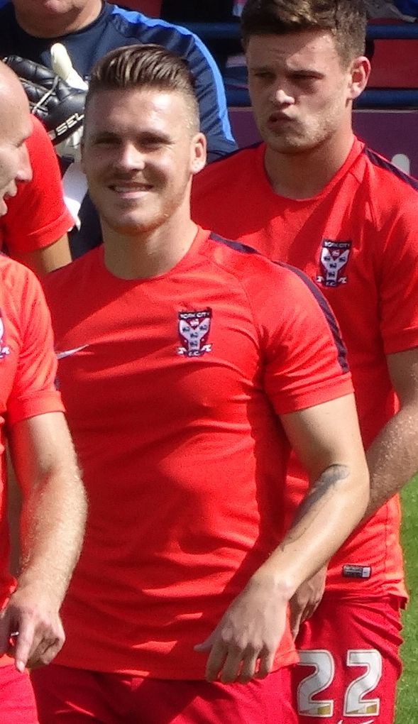 Josh Carson waming up for York City against Hartlepool United at Bootham Crescent, York on 15 August 2015